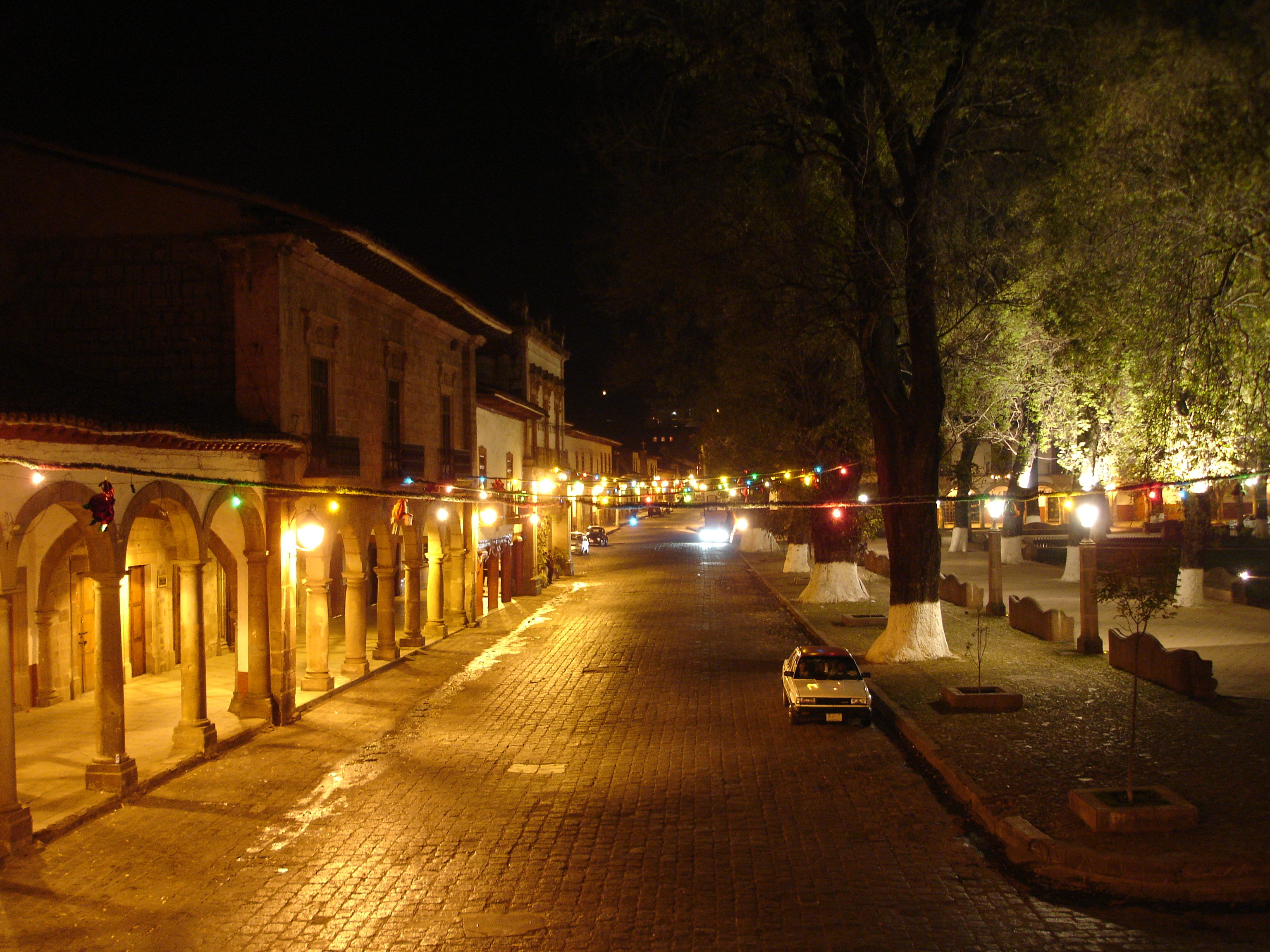 A street of Pátzcuaro, Michoacan, Mexico.